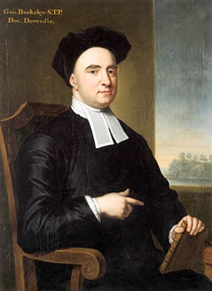 Portrait of George Berkeley